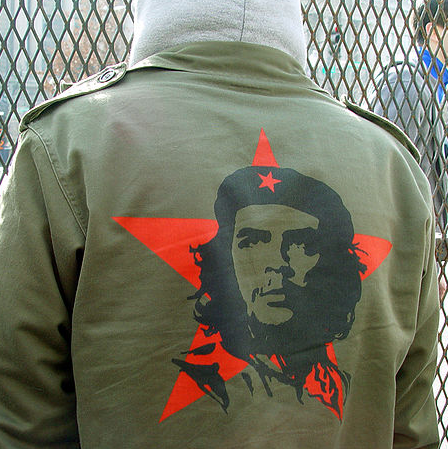 Bush's 2nd inauguration, January 20th 2005 in Washington DC. Picture taken by Jonathan McIntosh